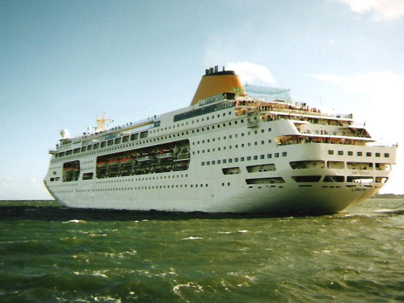 mvArcadia (now Ocean Village) leaving Station Pier, Melbourne